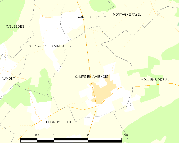 Map of French municipality Camps-en-Amiénois